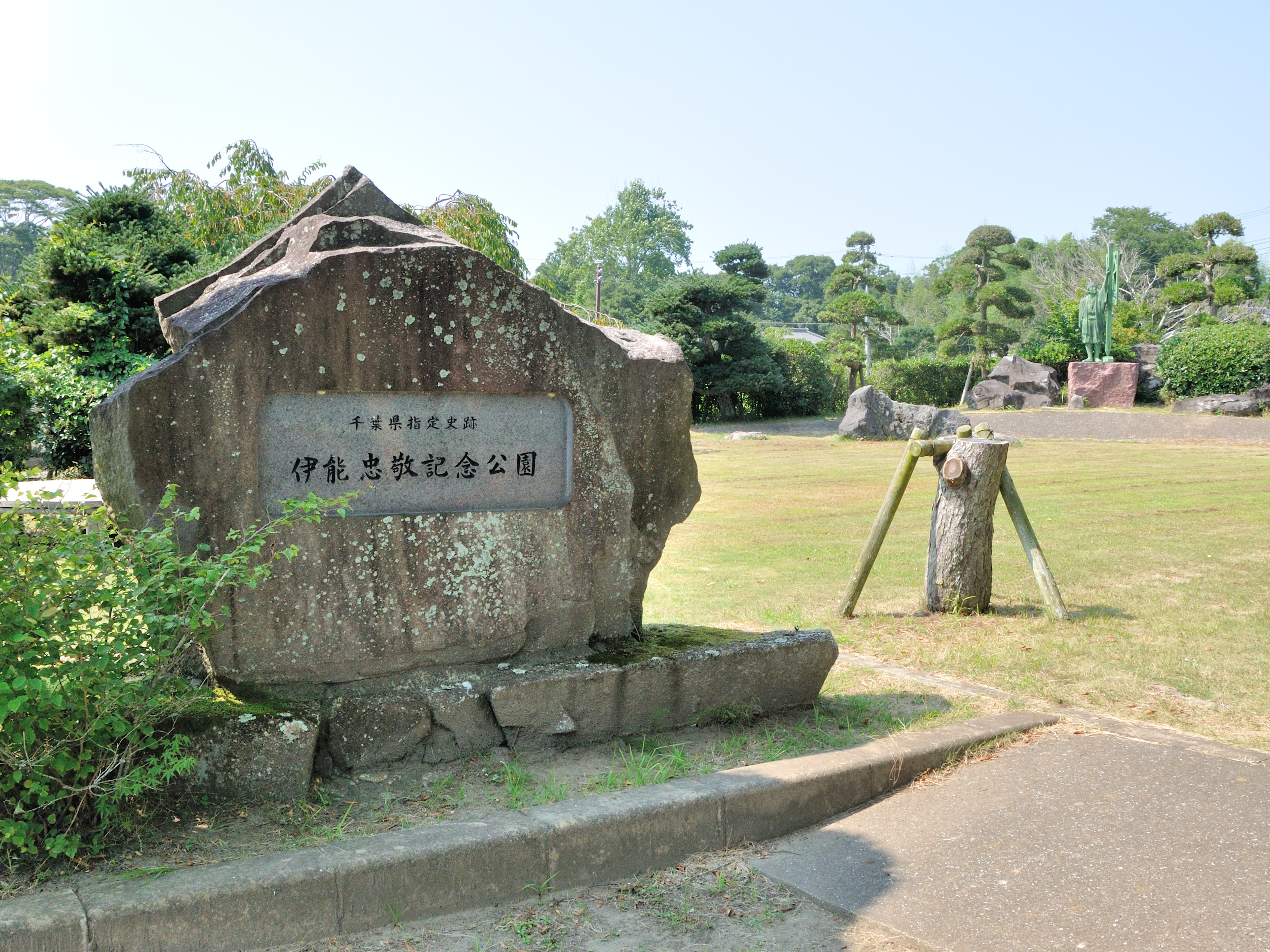 Entrance of the Ino Tadataka Memorial Park in Kujukuri Town, Chiba Prefecture, Japan